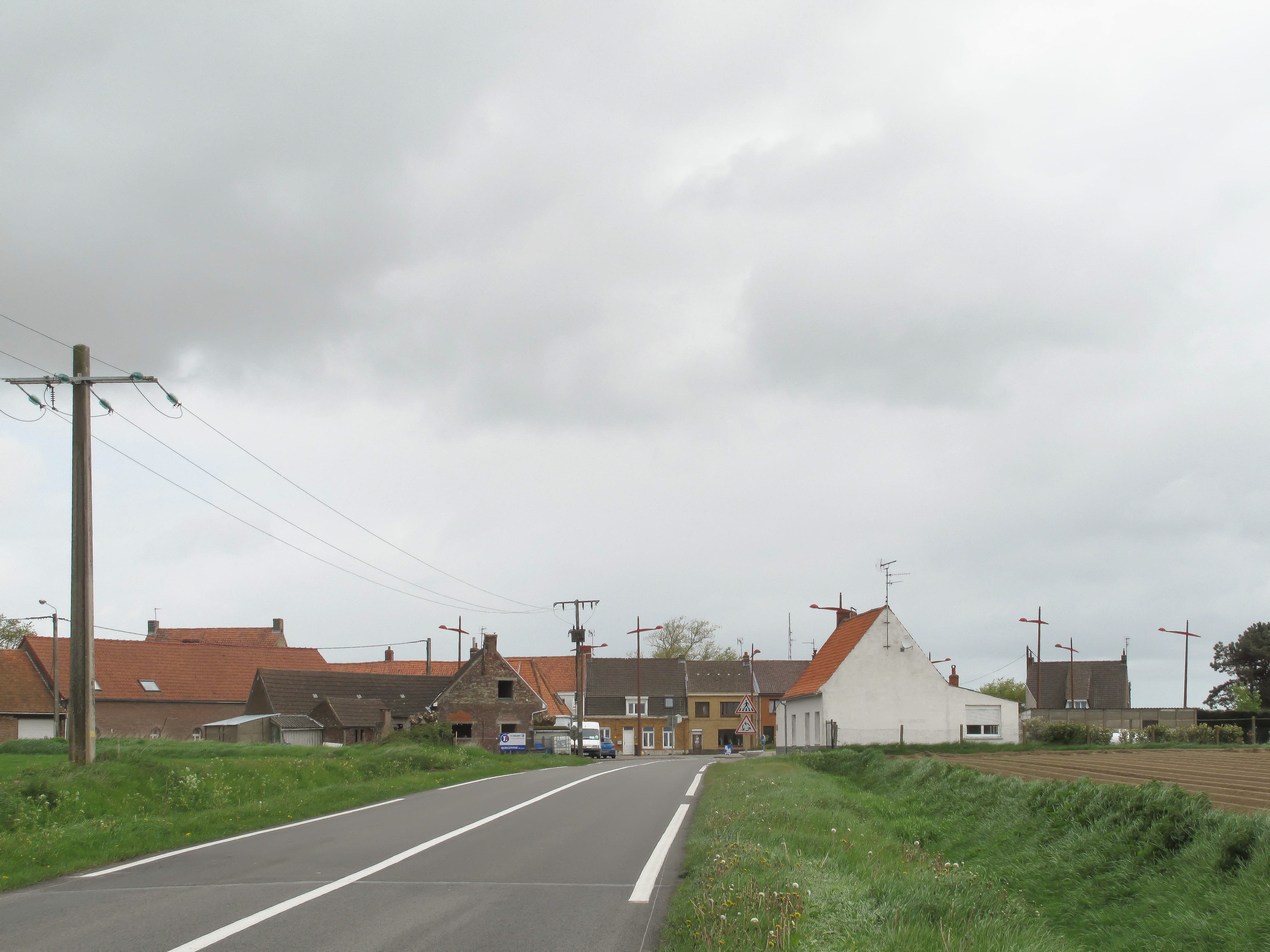 Les Cinq Chemins, view to a street